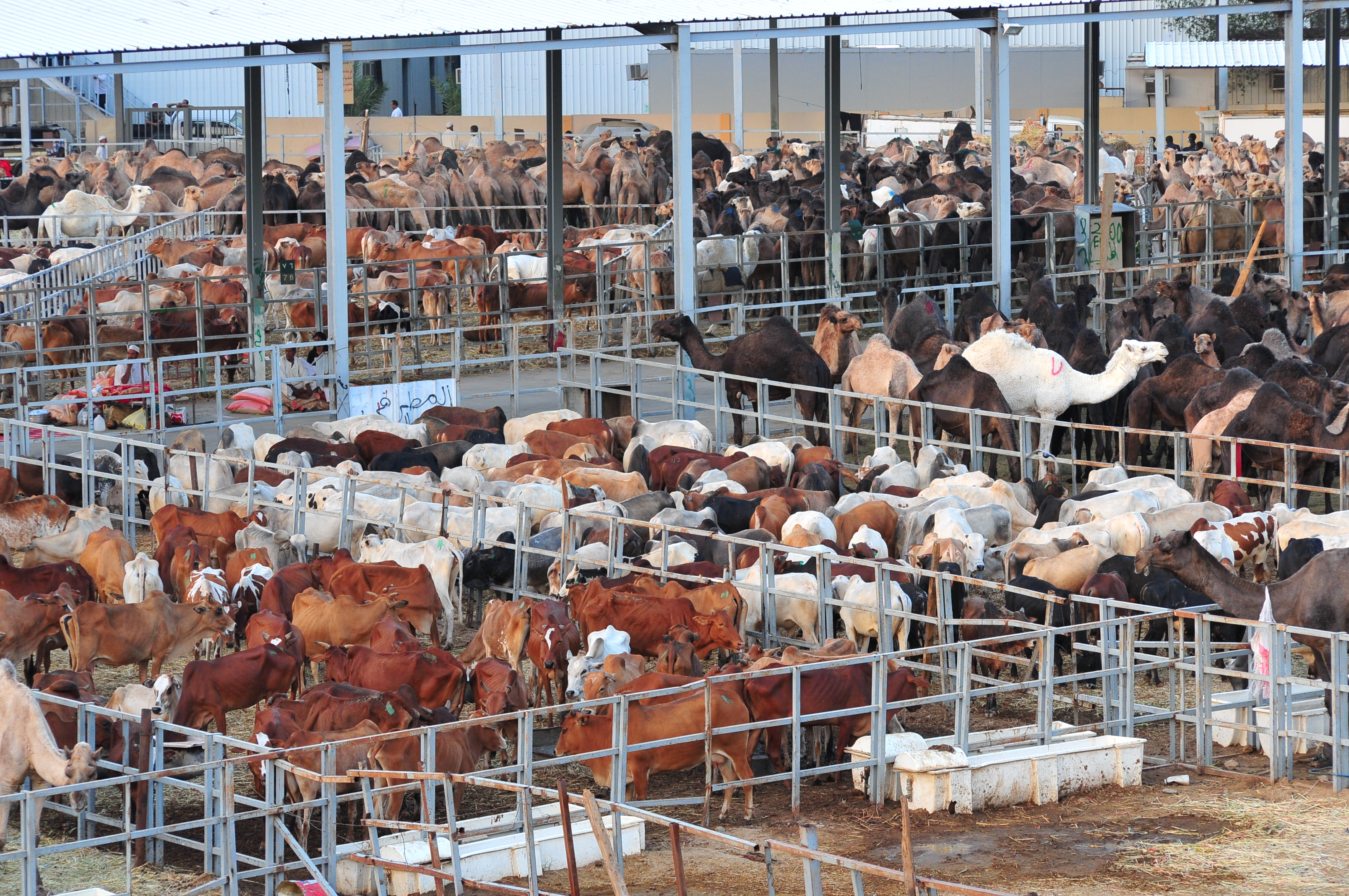 Butchers from Lebanon, Syria, Turkey, Iraq and Egyptian have gathered as a way to help the process - 18,000 of them along with helpers.